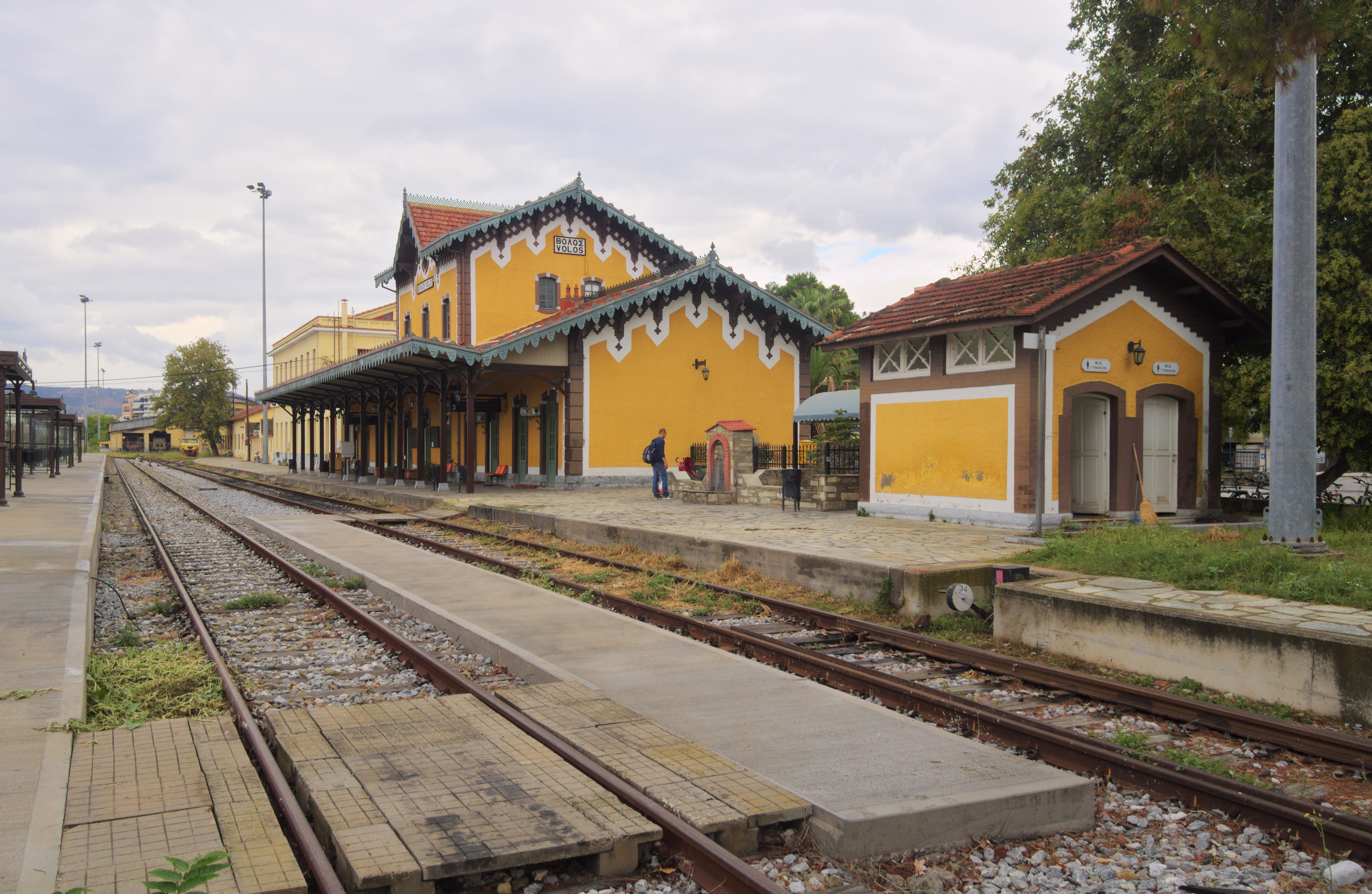 View of Volos train station from the platform.